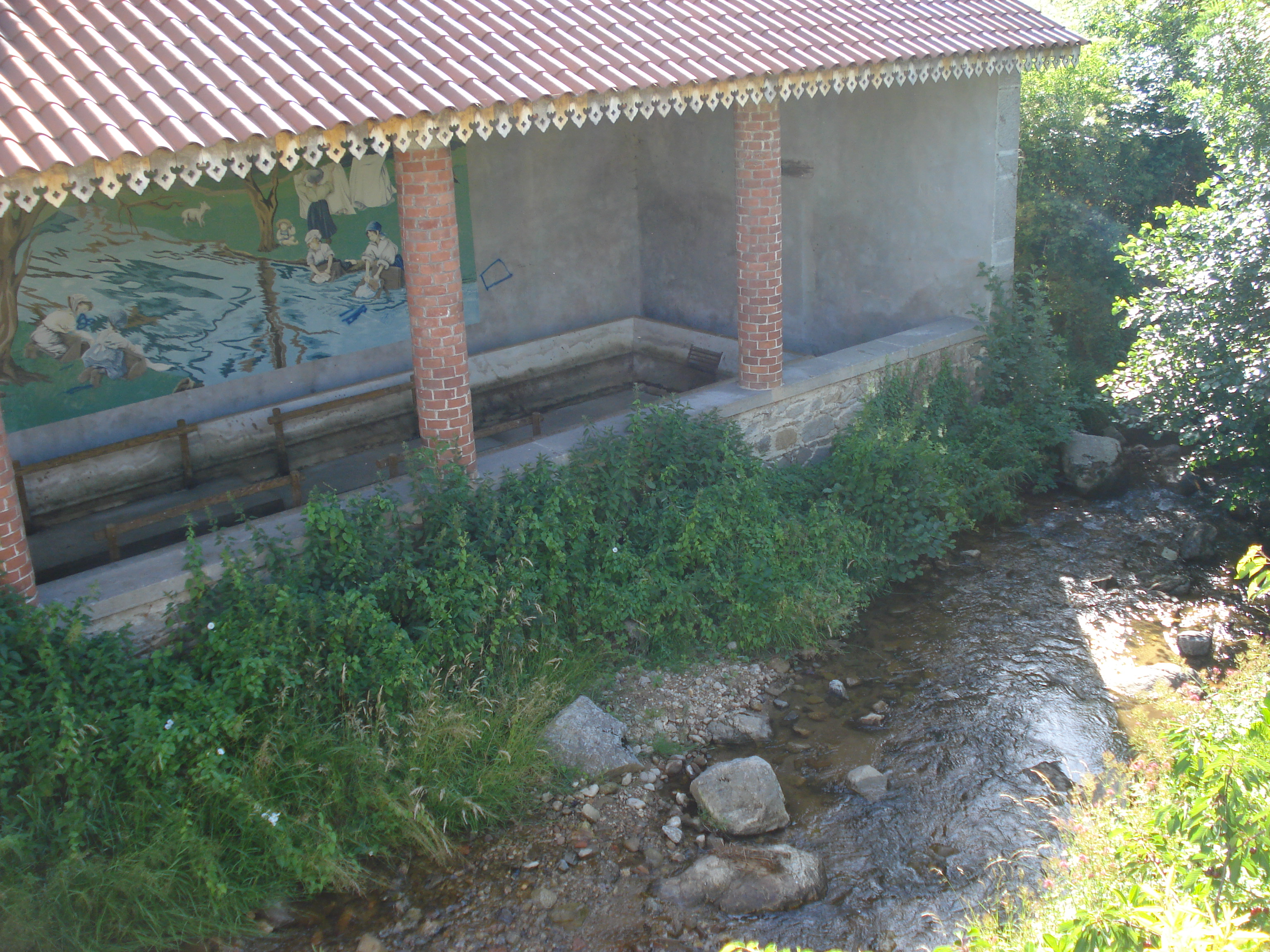 Moingt (river) with lavoir at Moingt, municipalité of Montbrison (Loire, Fr)